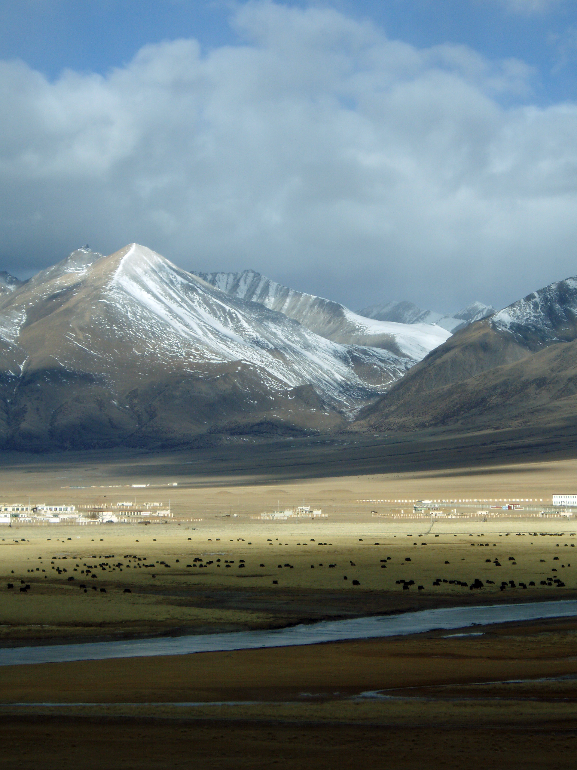 Snow mountains in Tibet